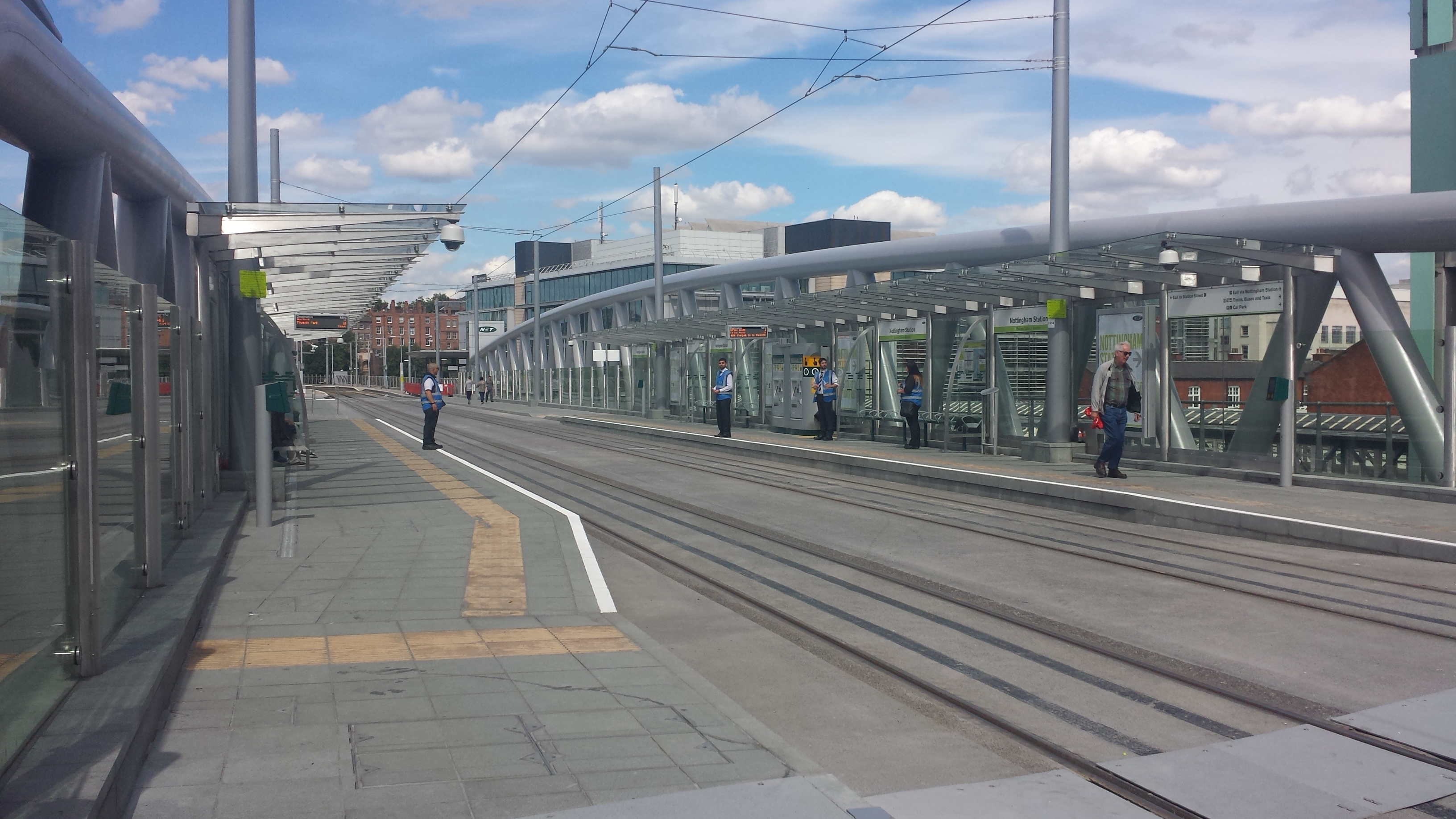 Nottingham Station tram stop, showing the former Station Street stop in the distance